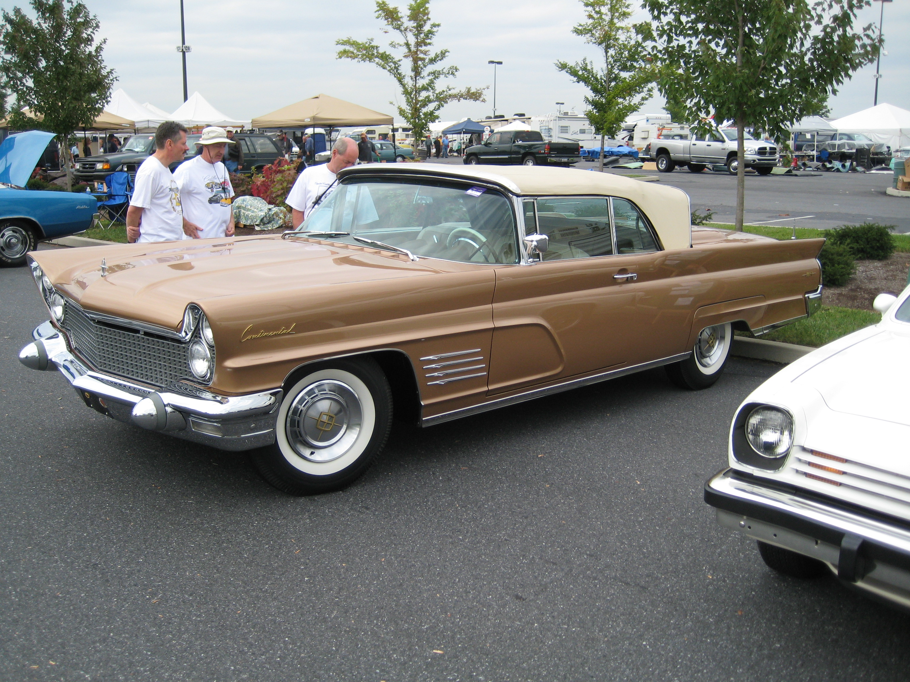 Front 3/4 view of a 1960 Lincoln Continental Mark V convertible. This view shows the car with the roof raised.